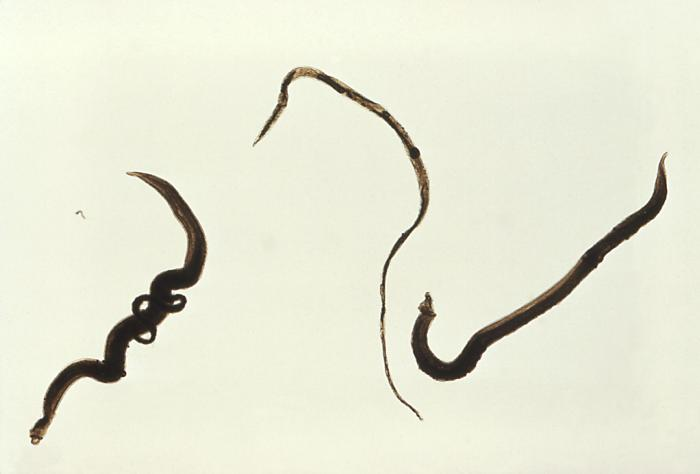 This micrograph reveals four Schistosoma mansoni trematodes, a pair (left), a female (center), and a male (right). Adult worms in humans reside in the mesenteric venules in various locations, which at times seem to be specific for each species, For instance, S. mansoni occurs more often in the superior mesenteric veins draining the large intestine.